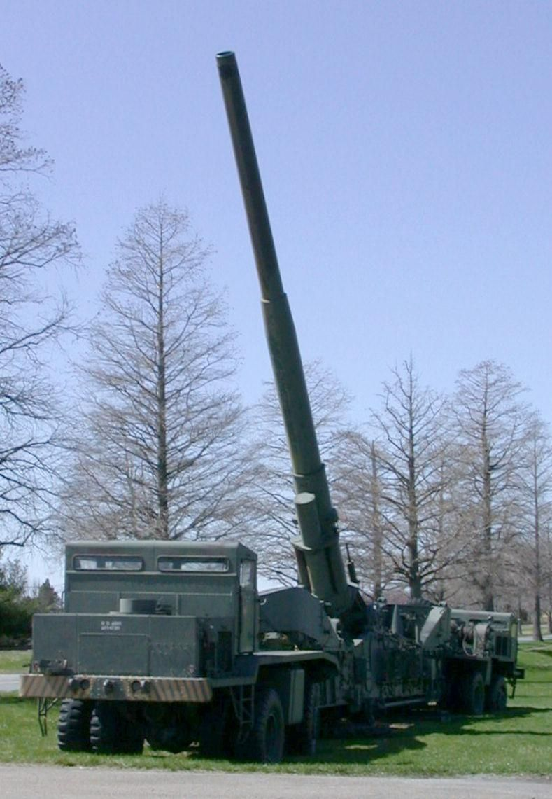 Image title: Atomic annie 280 mm field gun at aberdeen proving grounds Image from Public domain images website